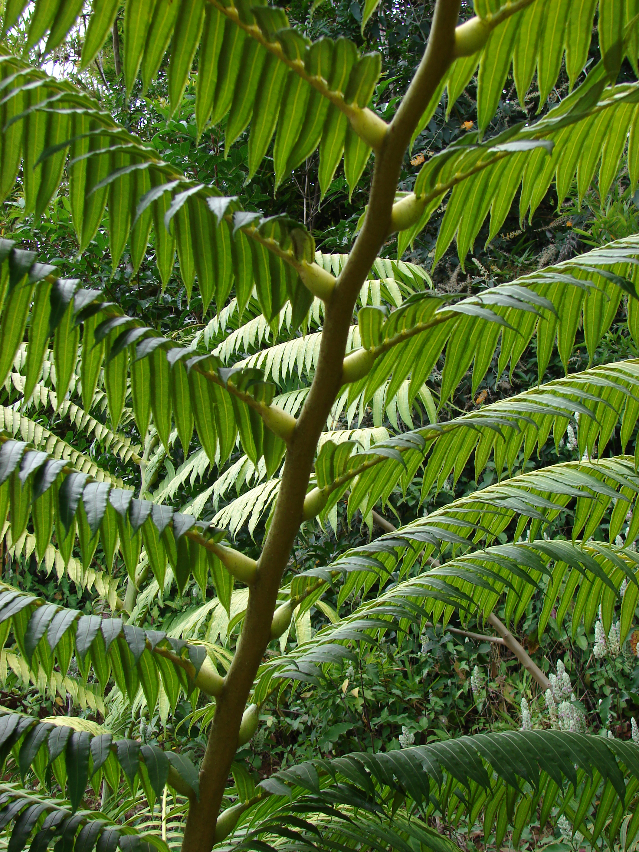 Angiopteris evecta (frond). Location: Maui, Polis Restaurant Makawao